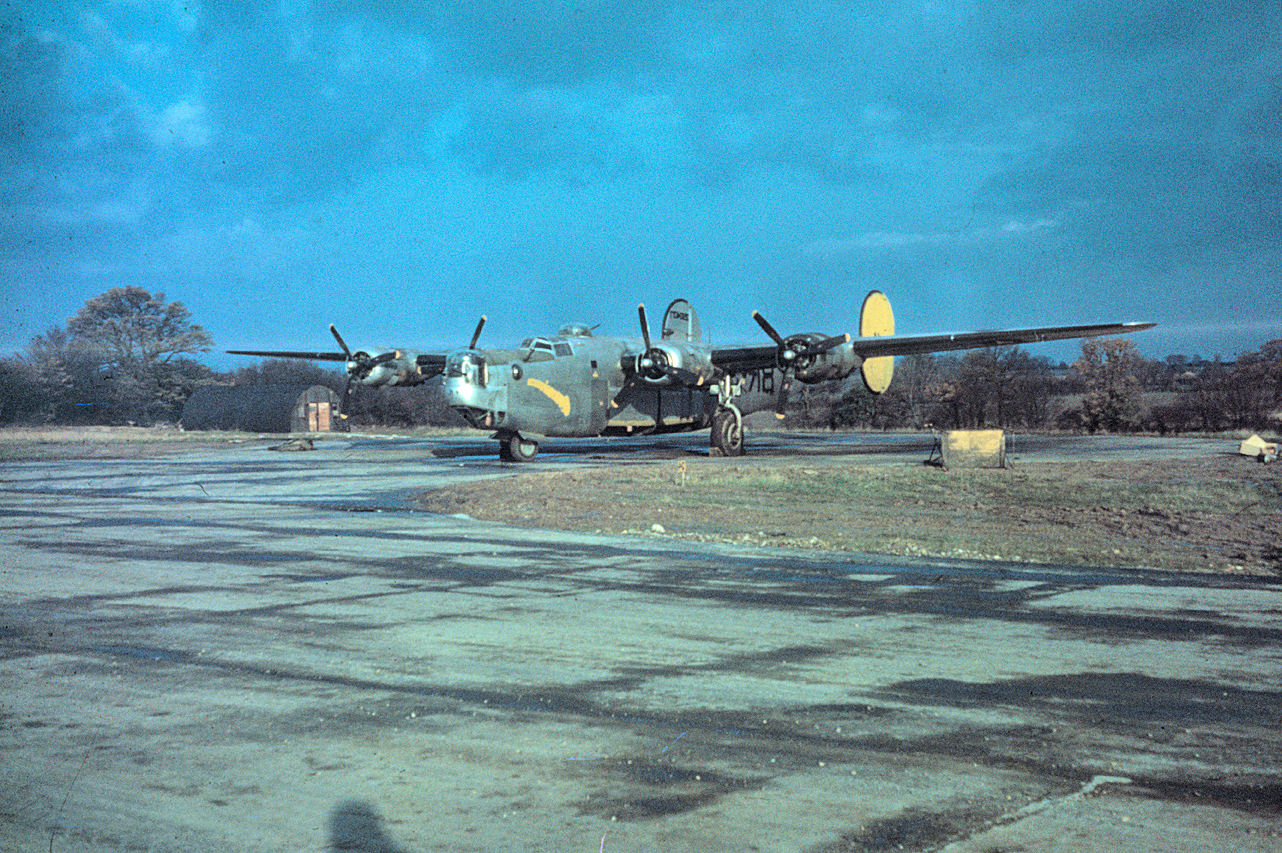 A B-24 Liberator (serial number 42-50437) nicknamed "Apassionata" of the 489th Bomb Group. Image via Robert Buck. Written on slide casing: '"Apassionata", 42059437.'